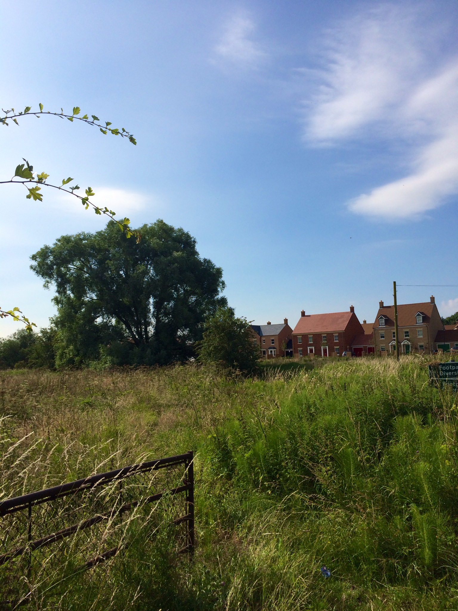 View of East Wichel from surrounding countryside